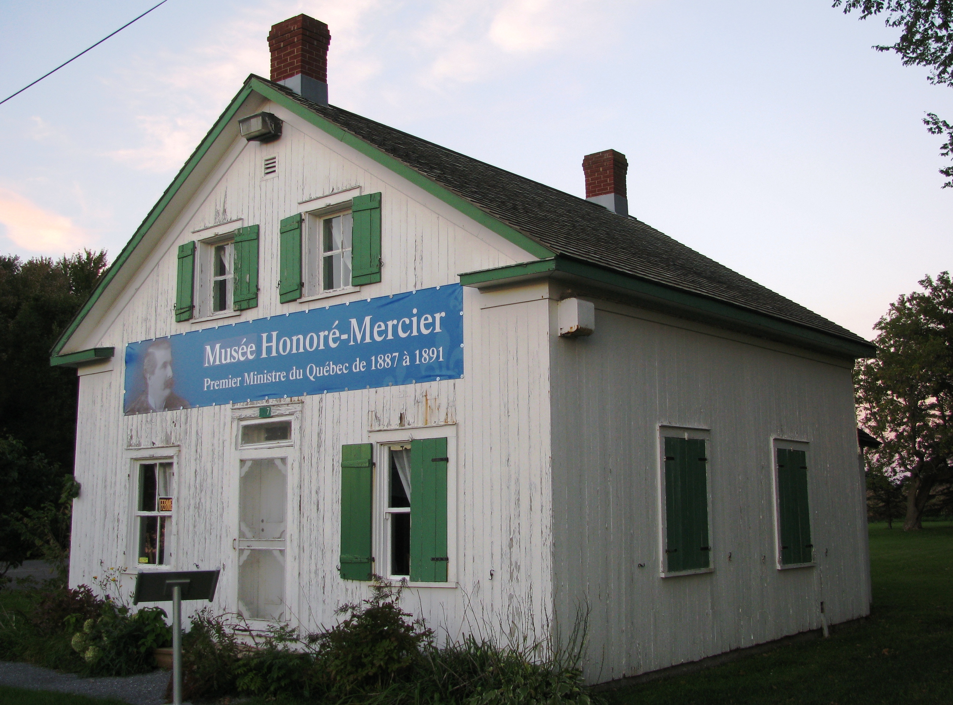 Birth place of Honoré Mercier (1840-1894) in the village of Sainte-Anne-de-Sabrevois. He was the Prime Minister of the Province of Quebec from 1887 to 1891.